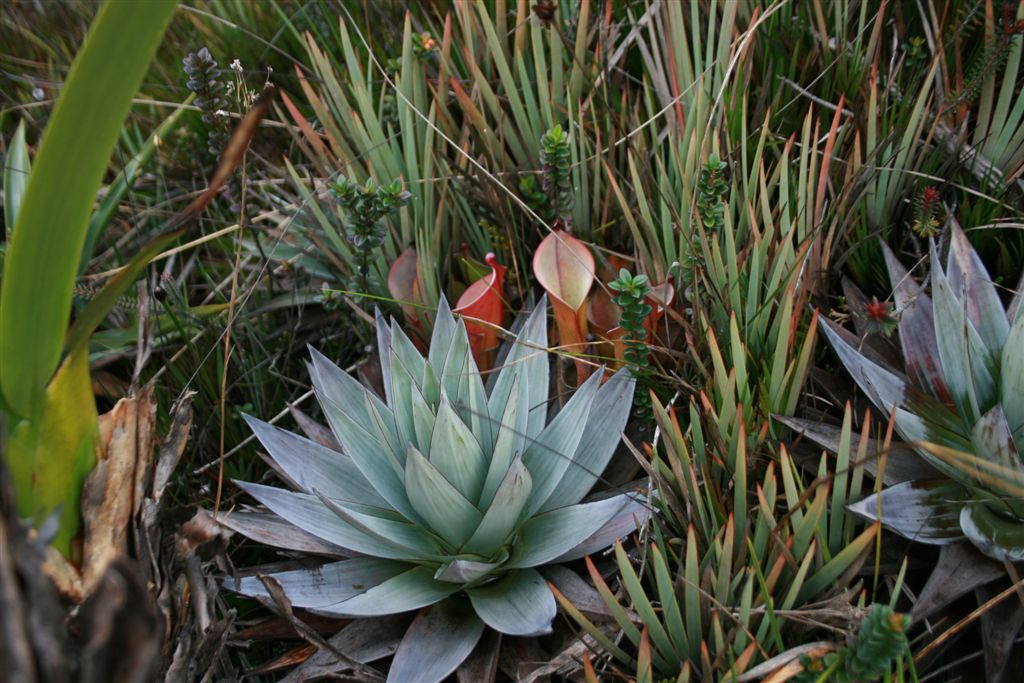 Orectanthe sceptrum and Heliamphora nutans on mount Roraima, Venezuela